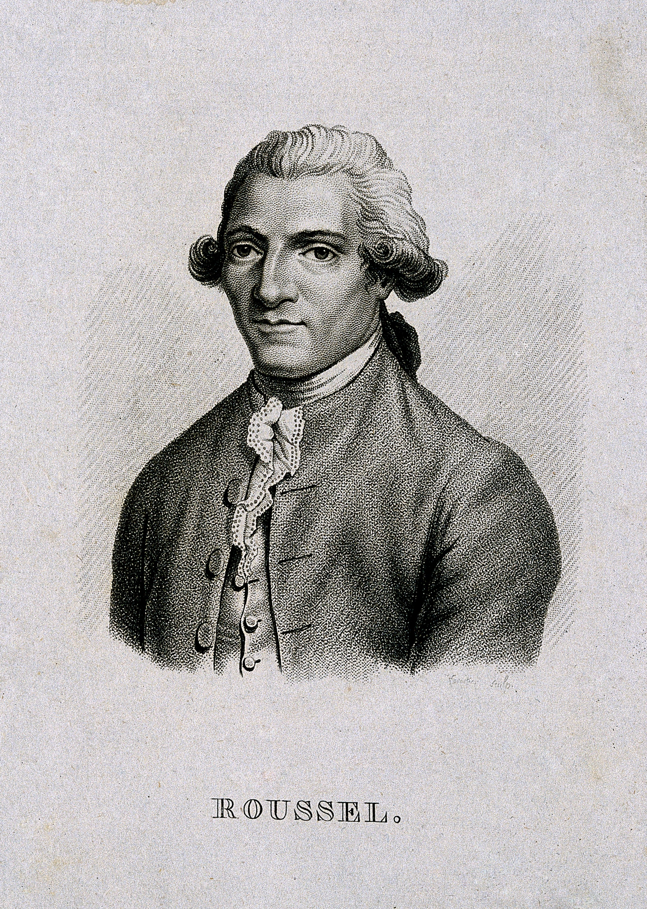 Pierre Roussel. Stipple engraving by Forestier. Iconographic Collections Keywords: portrait prints; stipple prints; Pierre Roussel